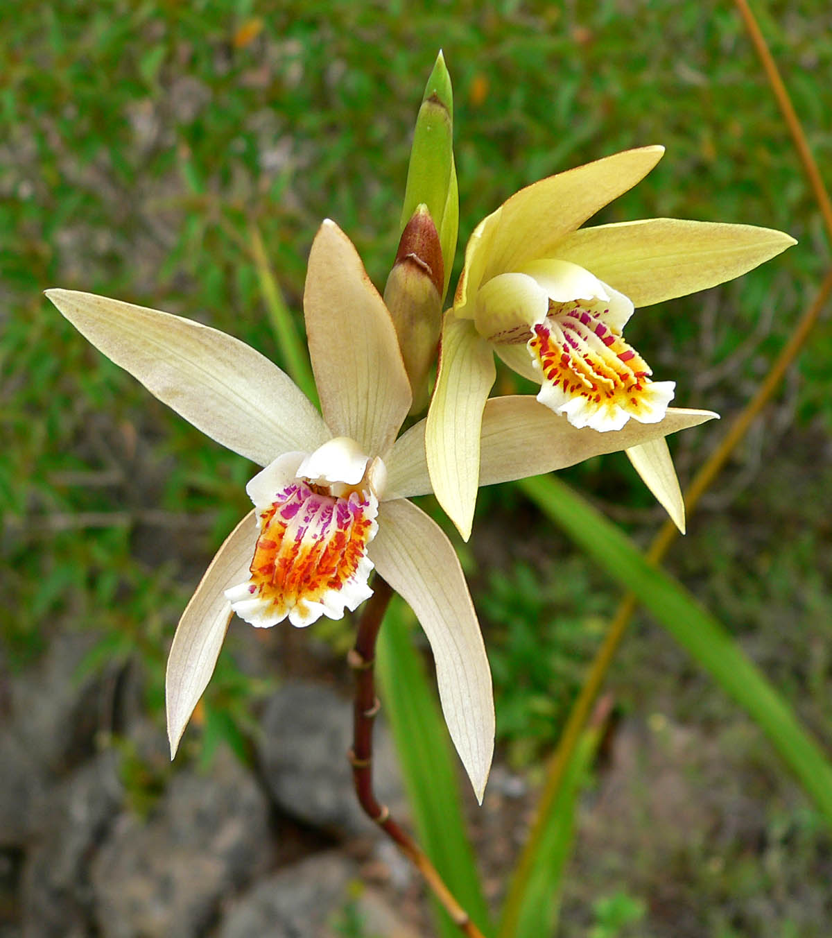 Photo of Bletilla ochracea at the University of California Botanical Garden